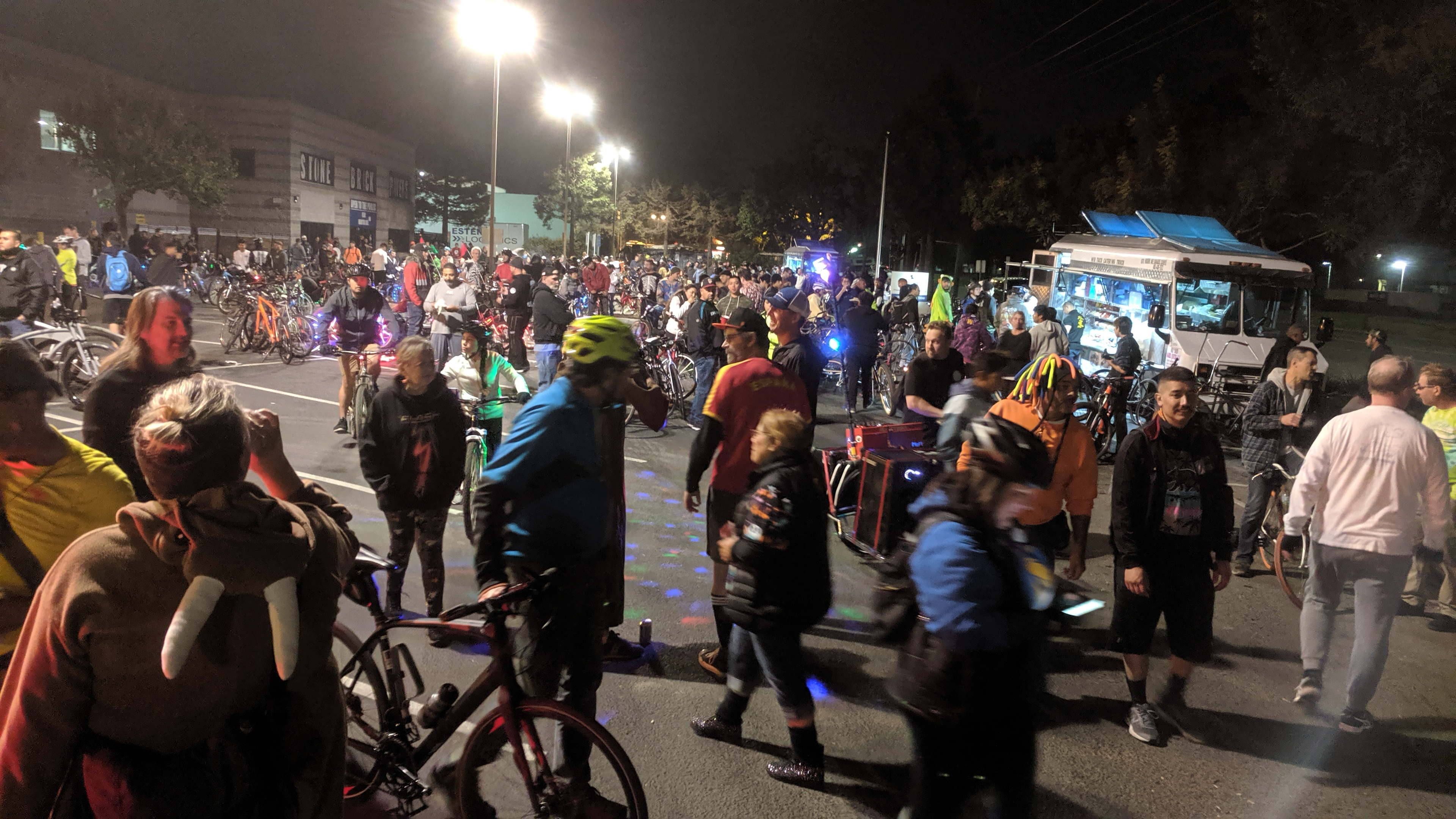 San Jose Bike Party stopped at a regroup point in Santa Clara on October 18, 2019. The theme for the month's event was the Halloween Costume Party Ride.